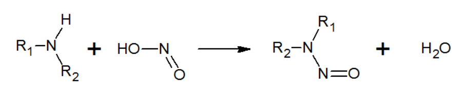 Nitrosamine's synthesis